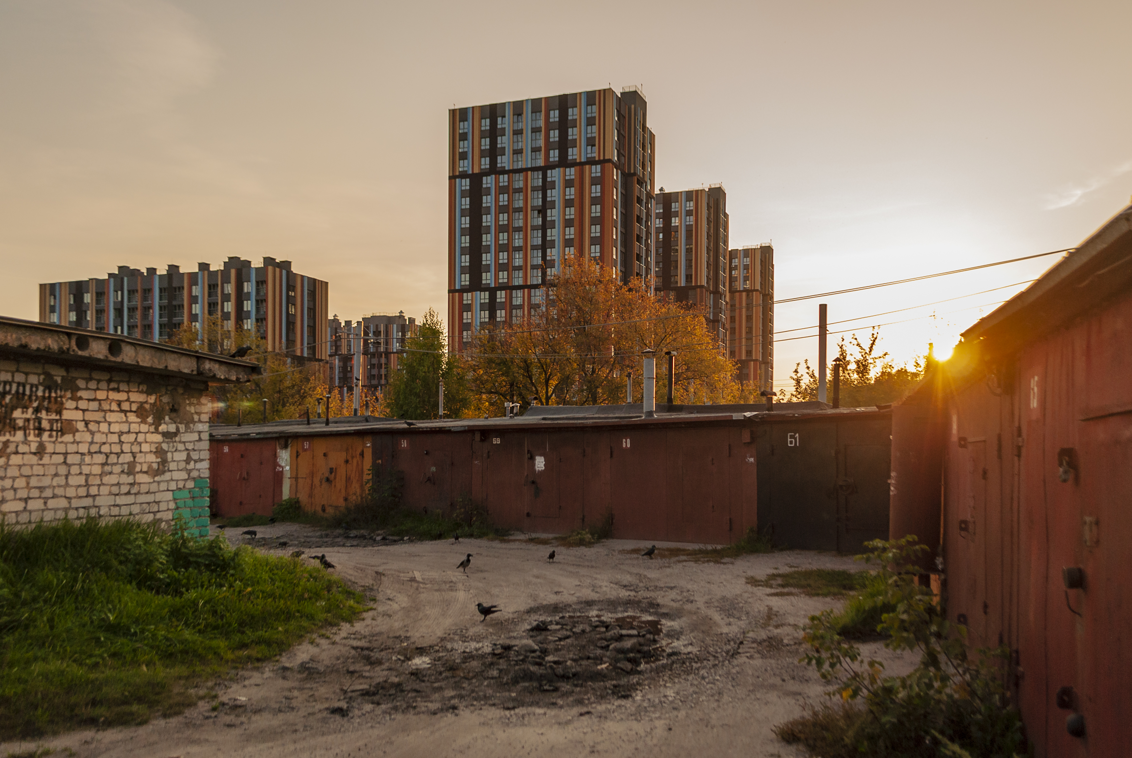 Garages in Leninsky City district of Nizhny Novgorod